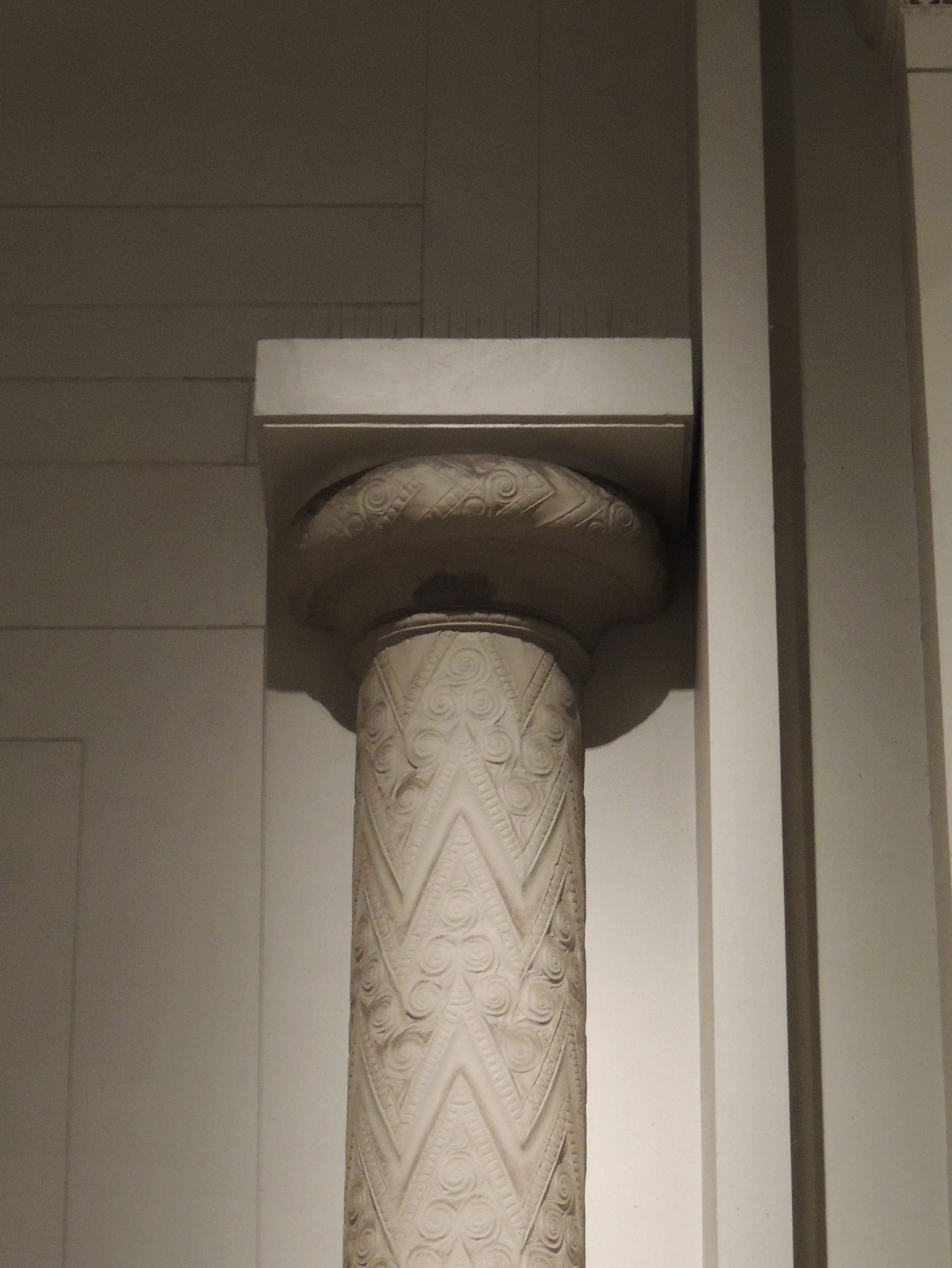 Column and capital from the Treasury of Atreus, Mycenae. Rekonstruction in the British Museum, room 11.